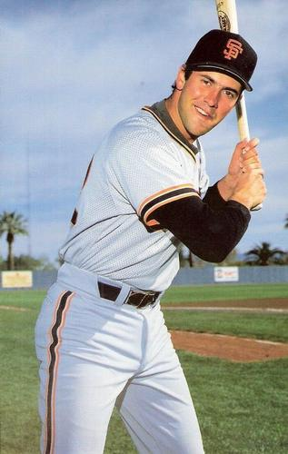 Color postcard from the 1986 San Francisco Giants postcard set of professional baseball player Will Clark